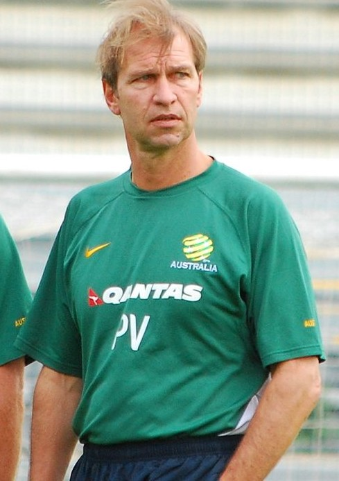 Pim Verbeek at Socceroos training.